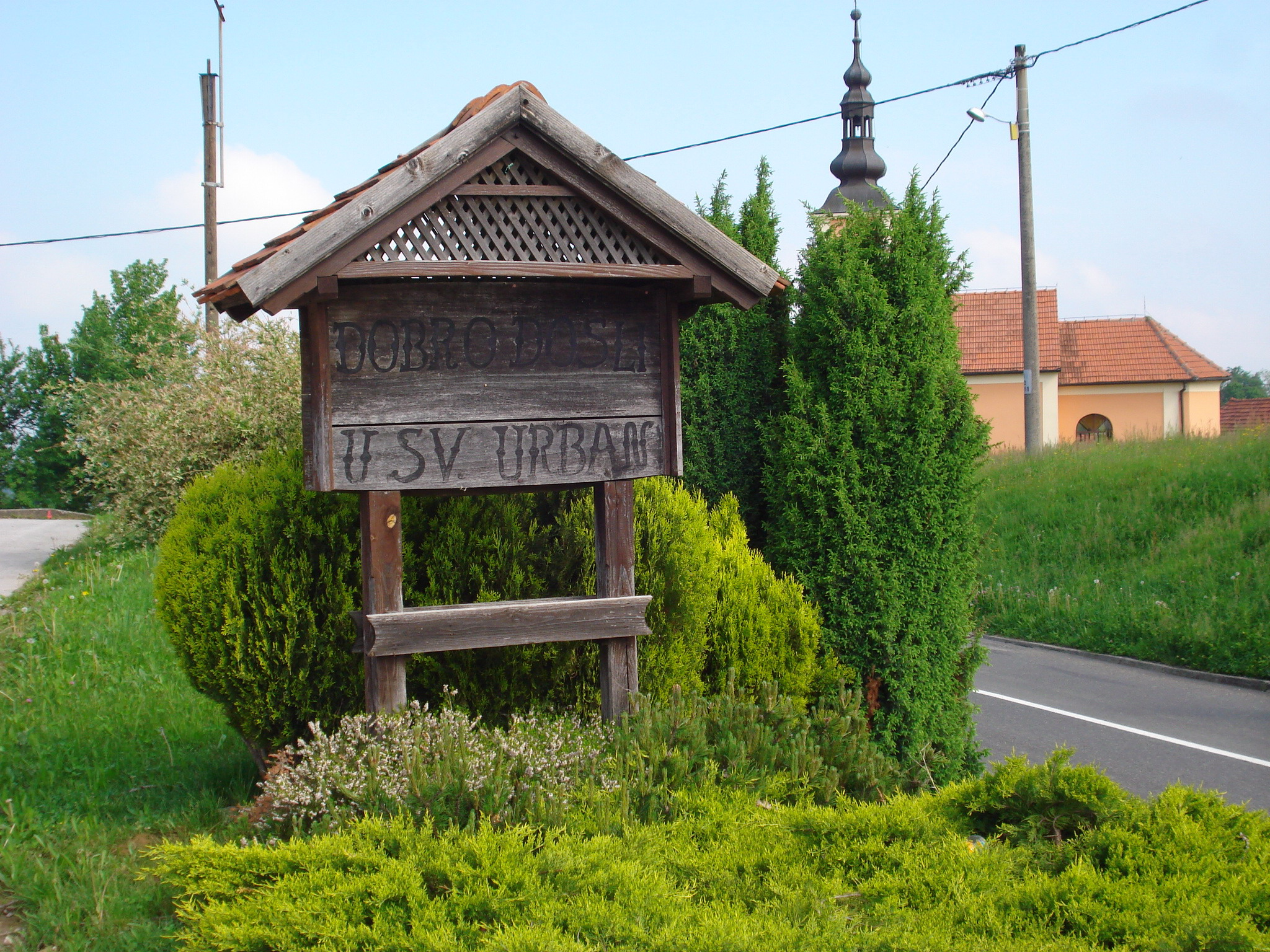 Welcome sign in Sveti Urban village, Medjimurje County, Croatia